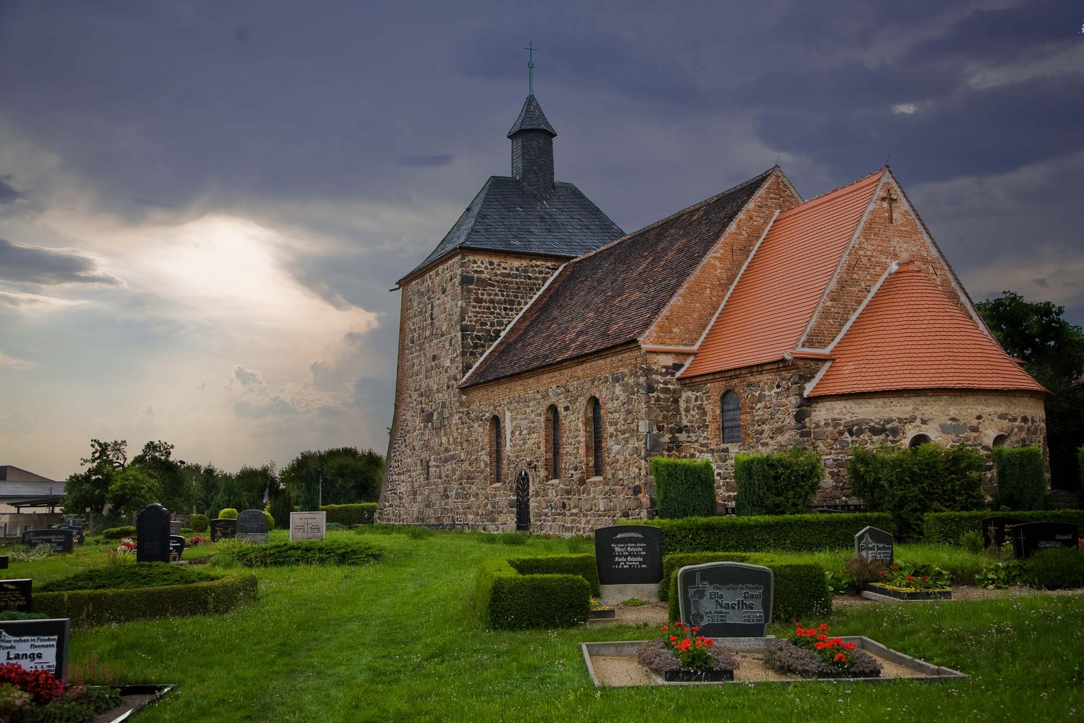 Bergholz Church afternoon